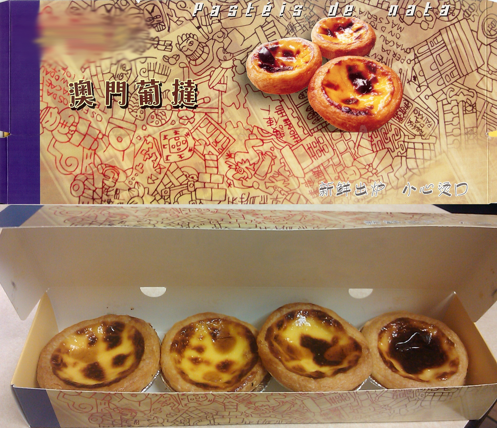 Box of 4 pastéis de nata, purchased in one of the many stores in Guangzhou (China) specifically selling these egg tart pastries.